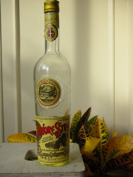 A bottle of Strega.